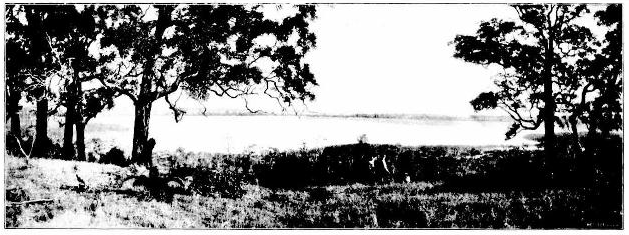 Lake Towerrinning shoreline ca. 1909